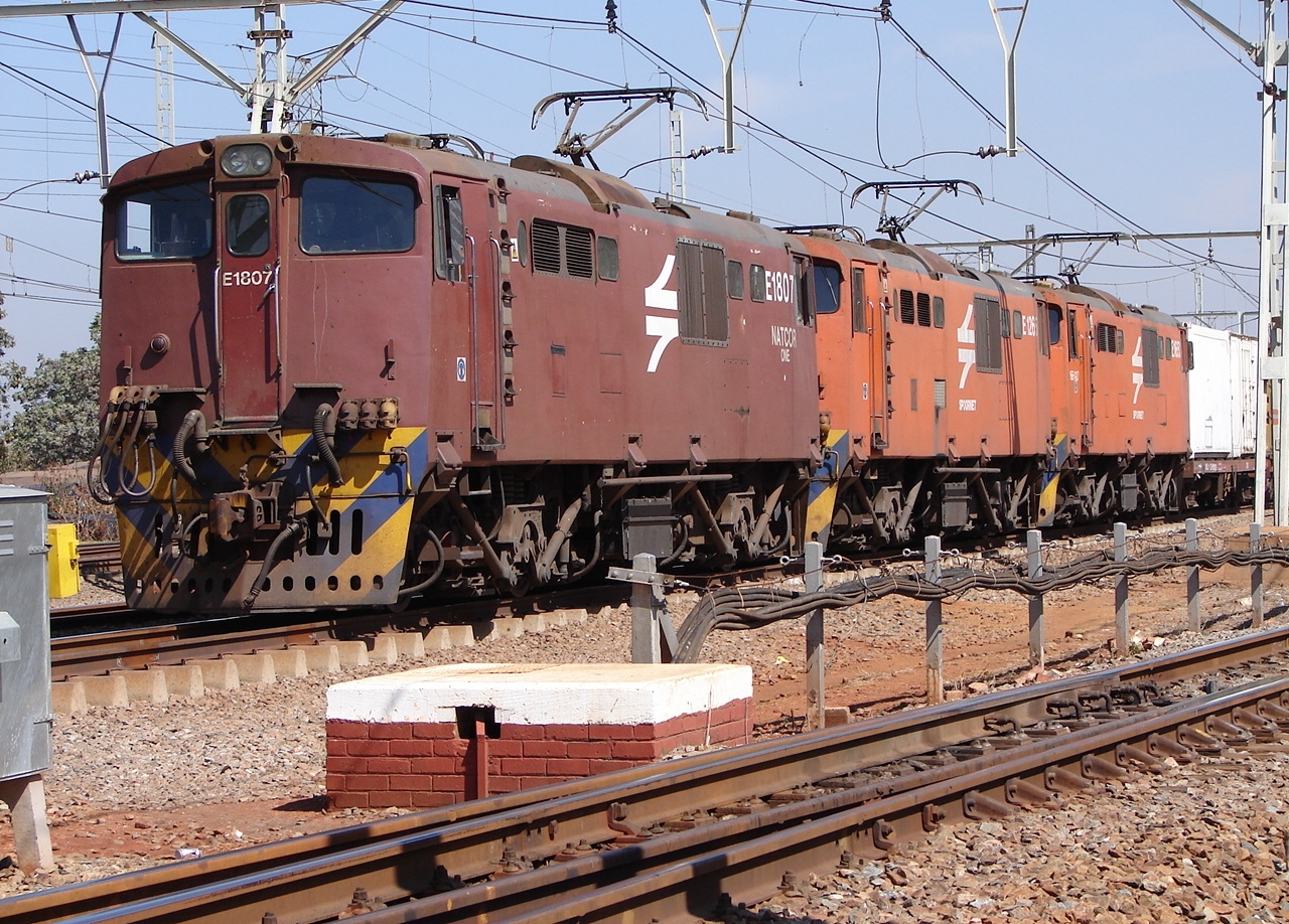 SAR Class 6E1 Series 7 no. E1807 Location: Kaalfontein, Gauteng Rebuilding: No. E1807 re-entered service in 2011 after being rebuilt to Class 18E no. 18-654